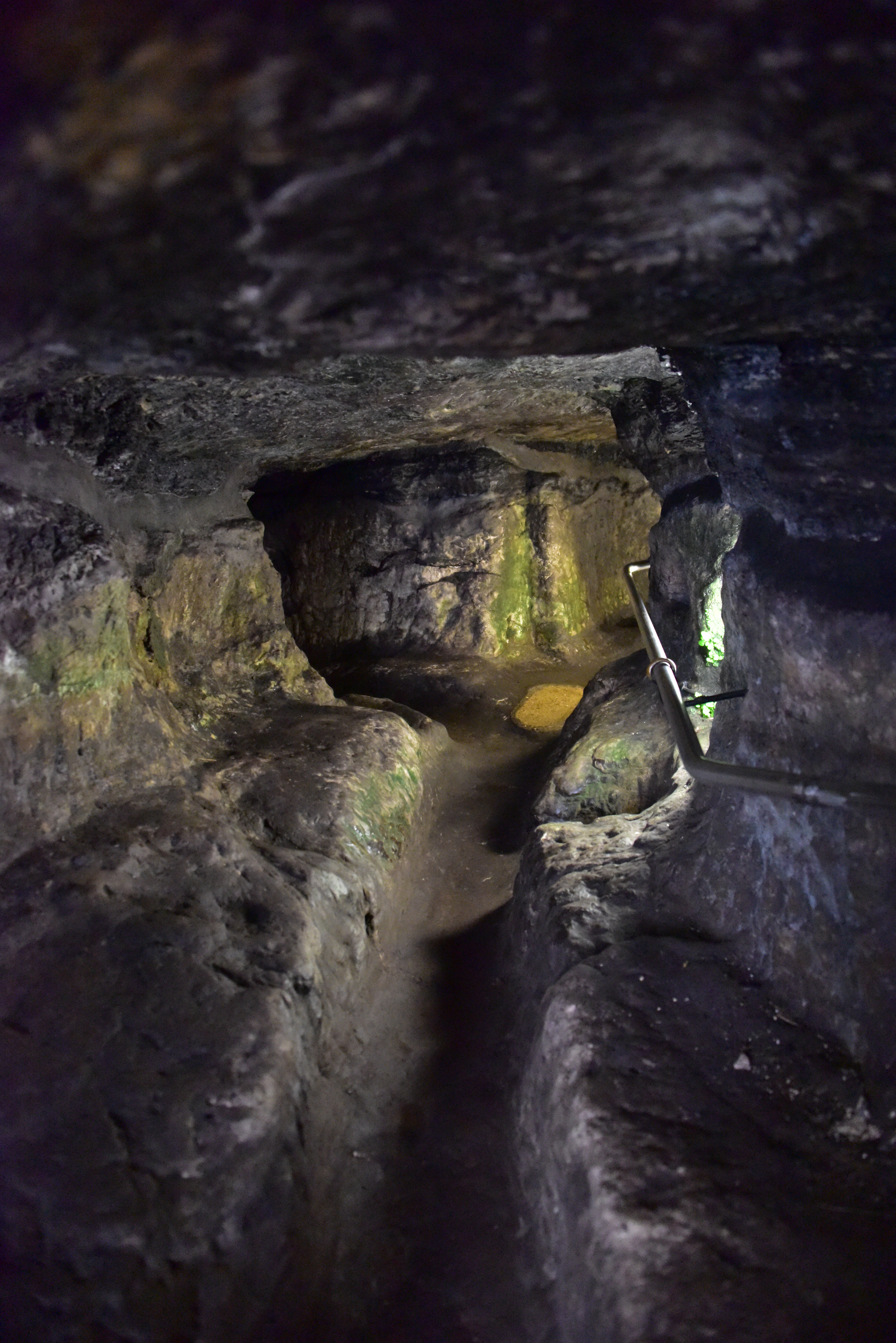 A tunnel under St. Andrews Castle dating from 1546, when Catholics besieged a group of Protestants who had walled themselves in the castle after killing a cardinal in revenge for his burning of a Protestant preacher.